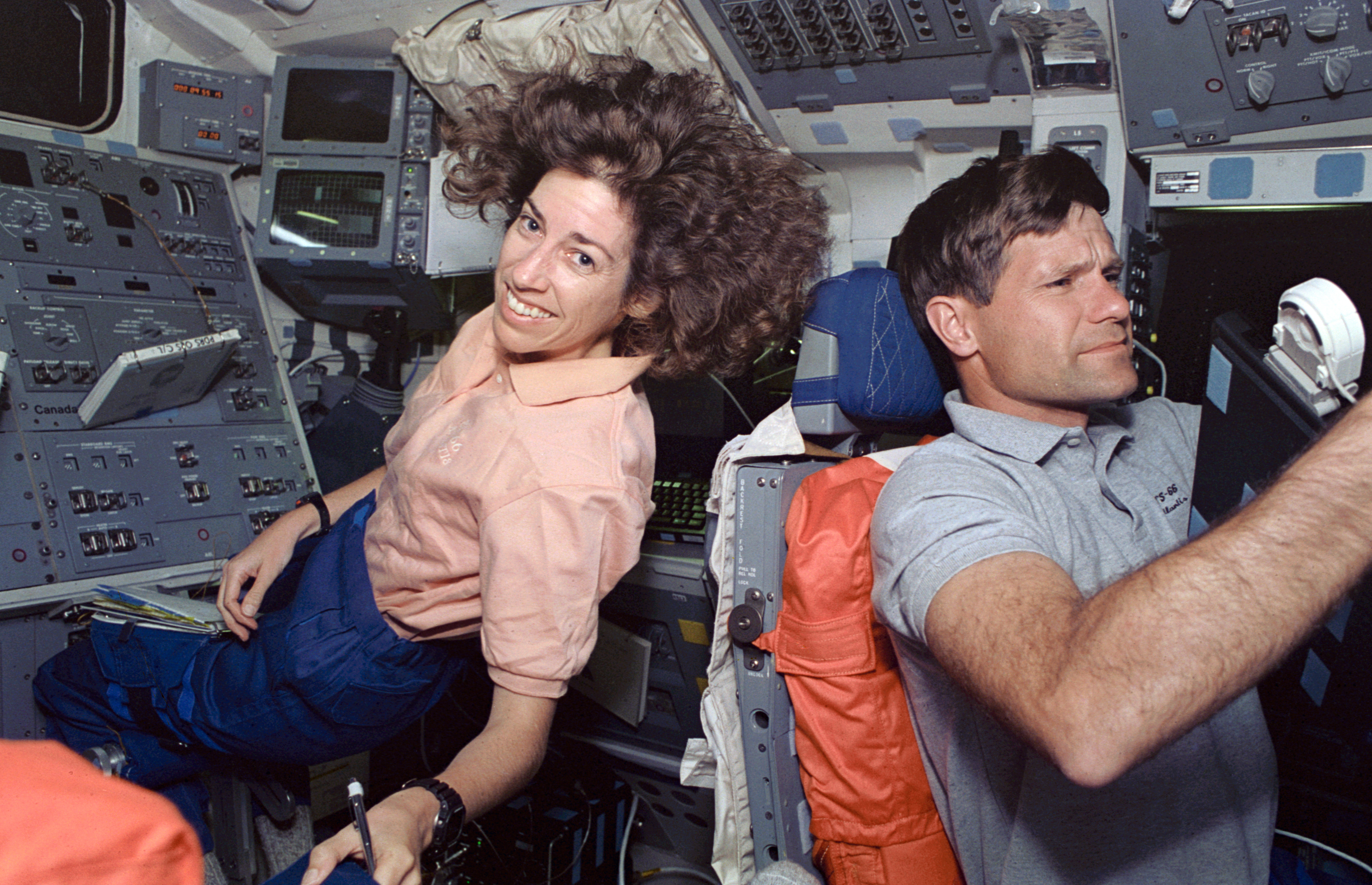 Astronaut Ellen Ochoa, payload commander, on the Space Shuttle Atlantis' aft flight deck, has just completed an operations at the controls for the Remote Manipulator System (RMS) arm while working in chorus with astronaut Donald R. McMonagle. McMonagle, mission commander, is seen here at his station on the forward flight deck. An RMS operations checklist floats in front of Ochoa.